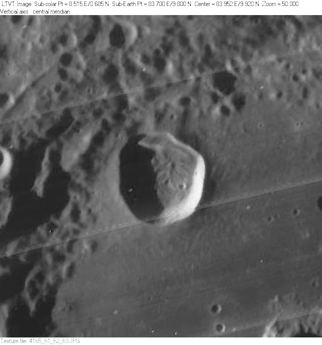 LO-IV-165H This crater is on the northeast floor of the much larger Neper.